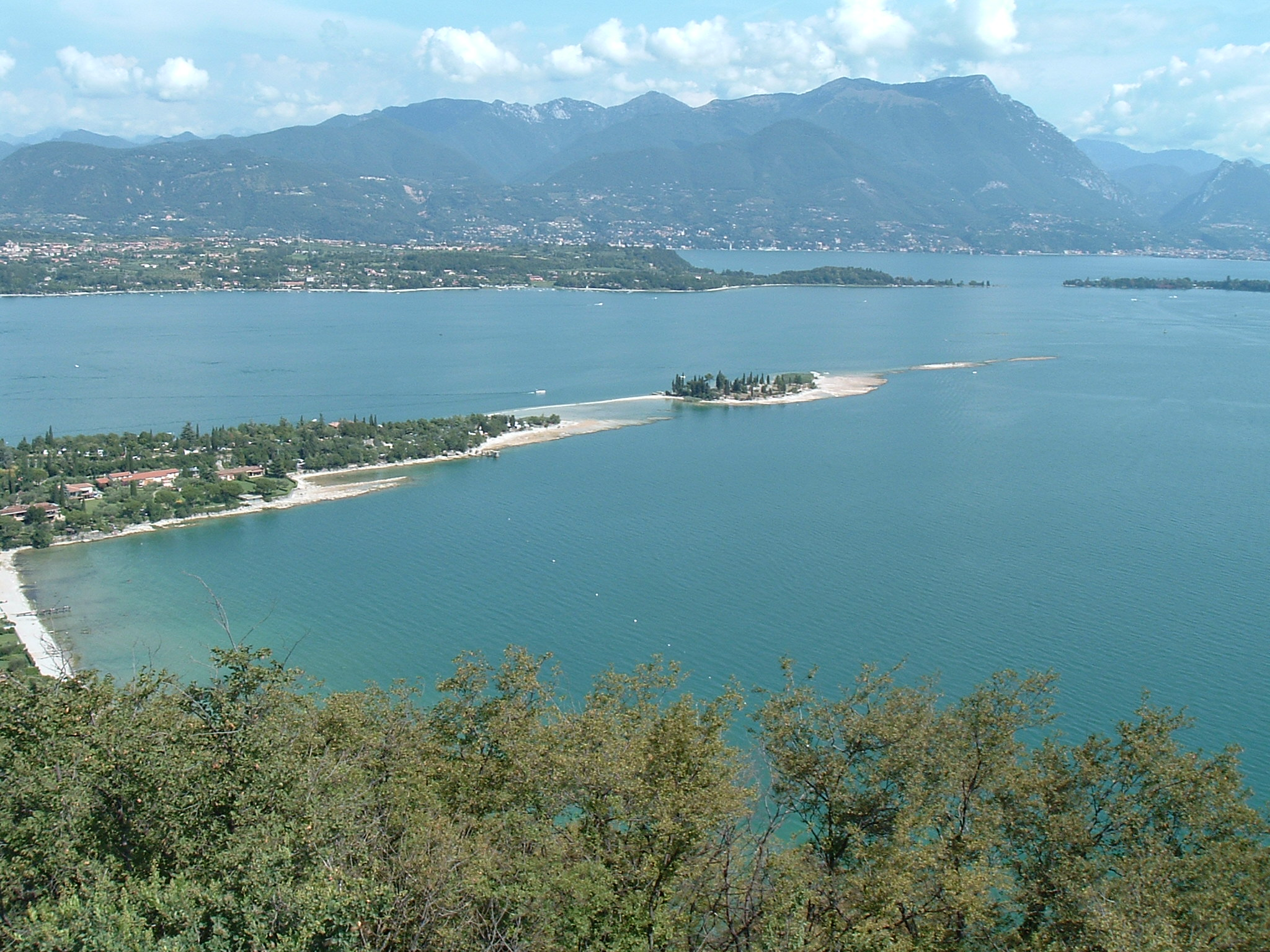 Bay of Manerba, view from Rocco di Manerba (Italy, Lago di Garda)